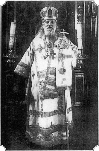 Seraphin (Chichagov), metropolitan of Leningrad and Gdov